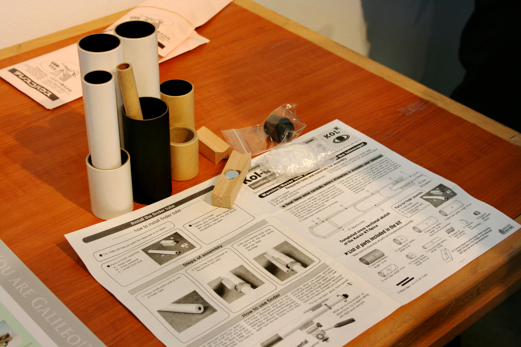 Launch of the International Year of Astronomy in Paris. Galileoscope – a simple telescope for 10 million people.